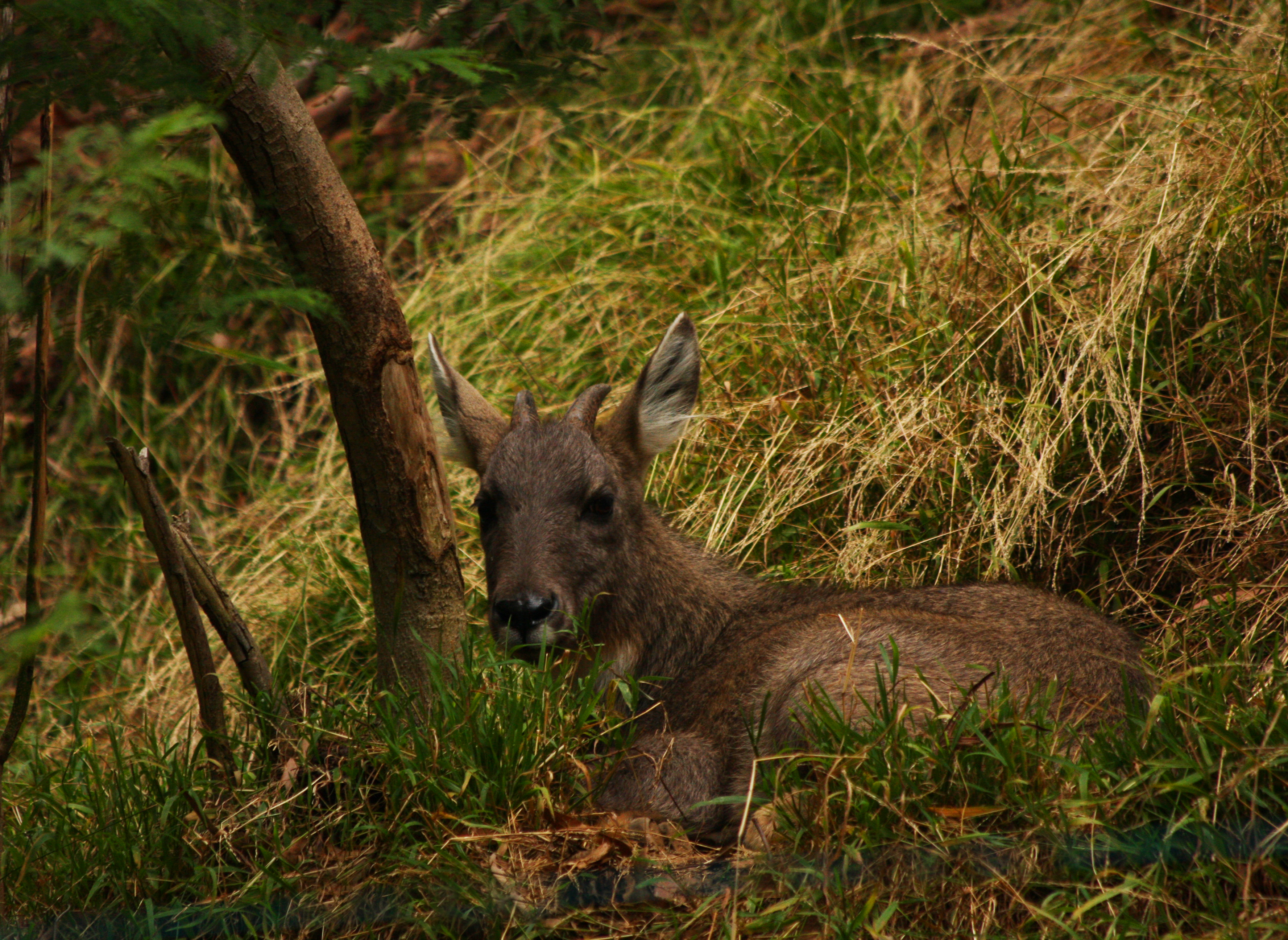 Central Chinese Goral (Nemorhaedus griseus)